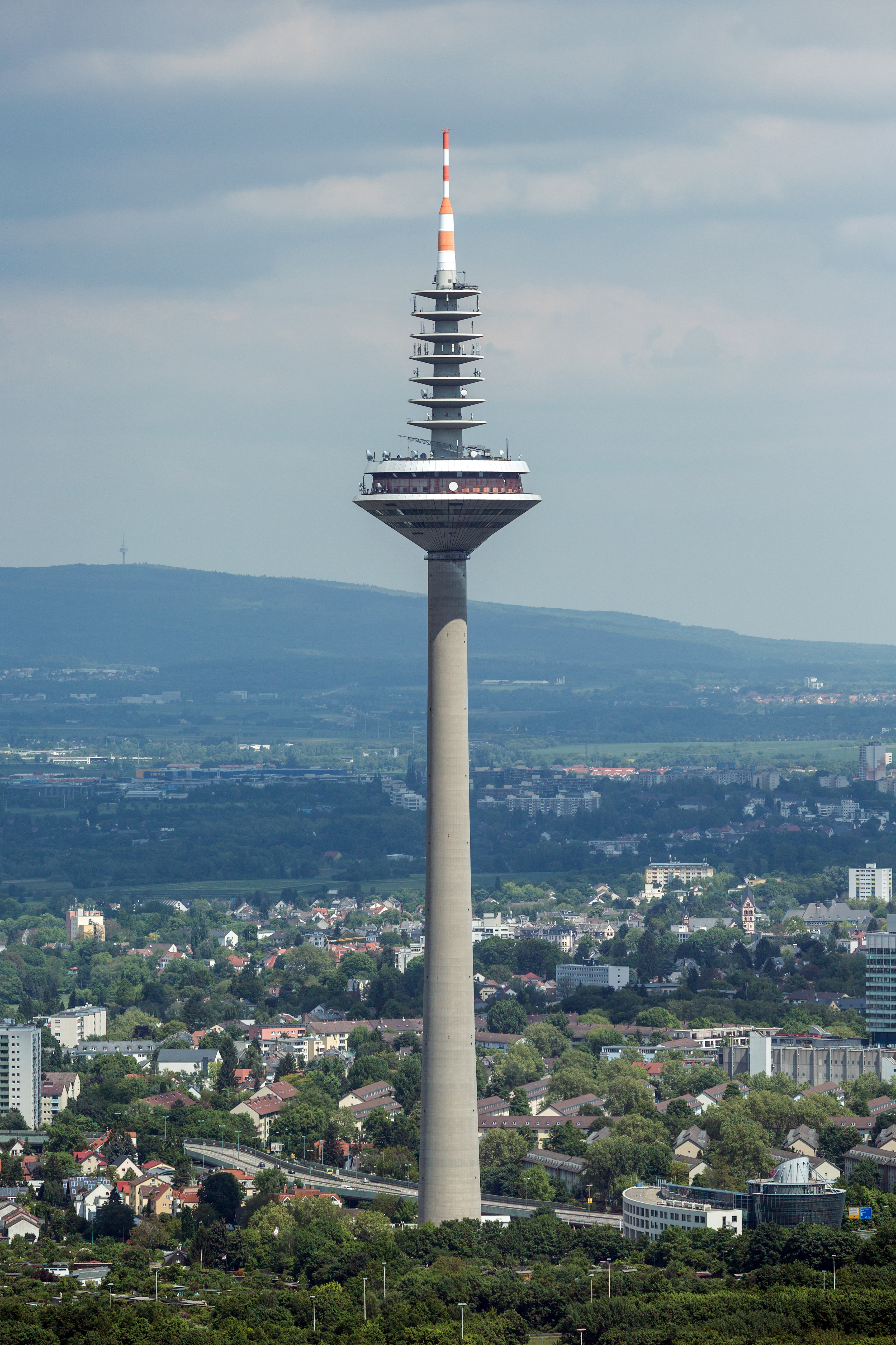 Frankfurt on the Main: Europaturm (Europe Tower) as seen from the Messeturm (Fair Tower)